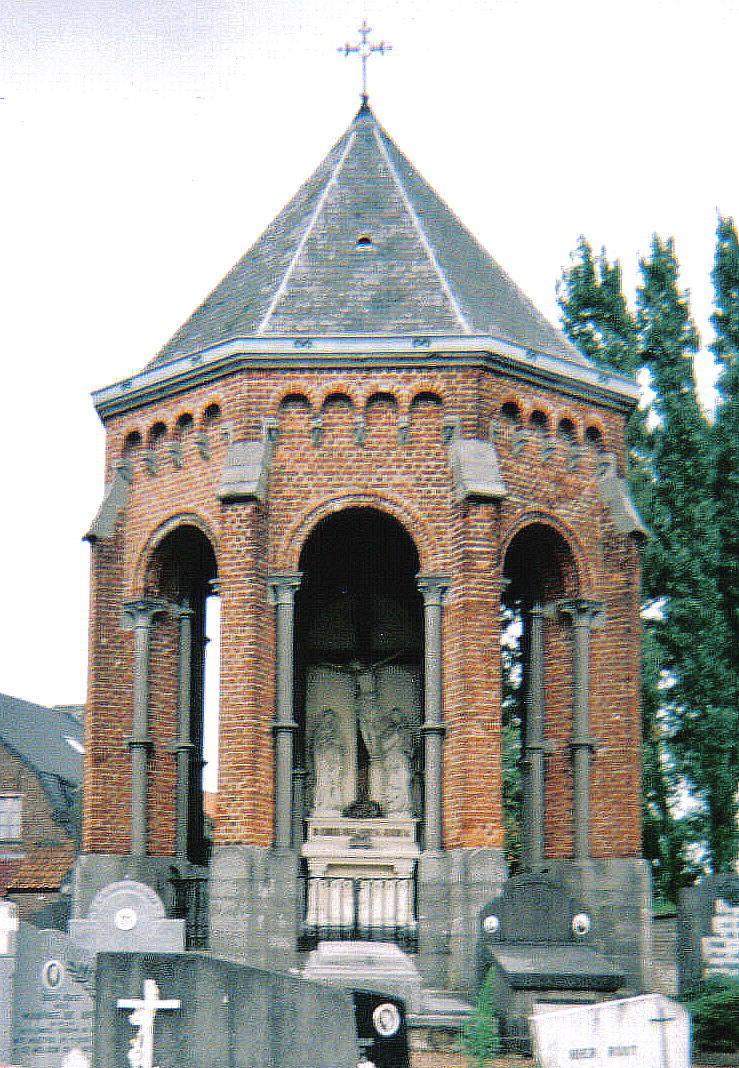 The tomb chapel of Hendrik-Karel Lambrecht, a 19th century bishop of Ghent, located upon the precincts of the old cemetary at Welden, a submunicipality of Oudenaarde, Belgium.